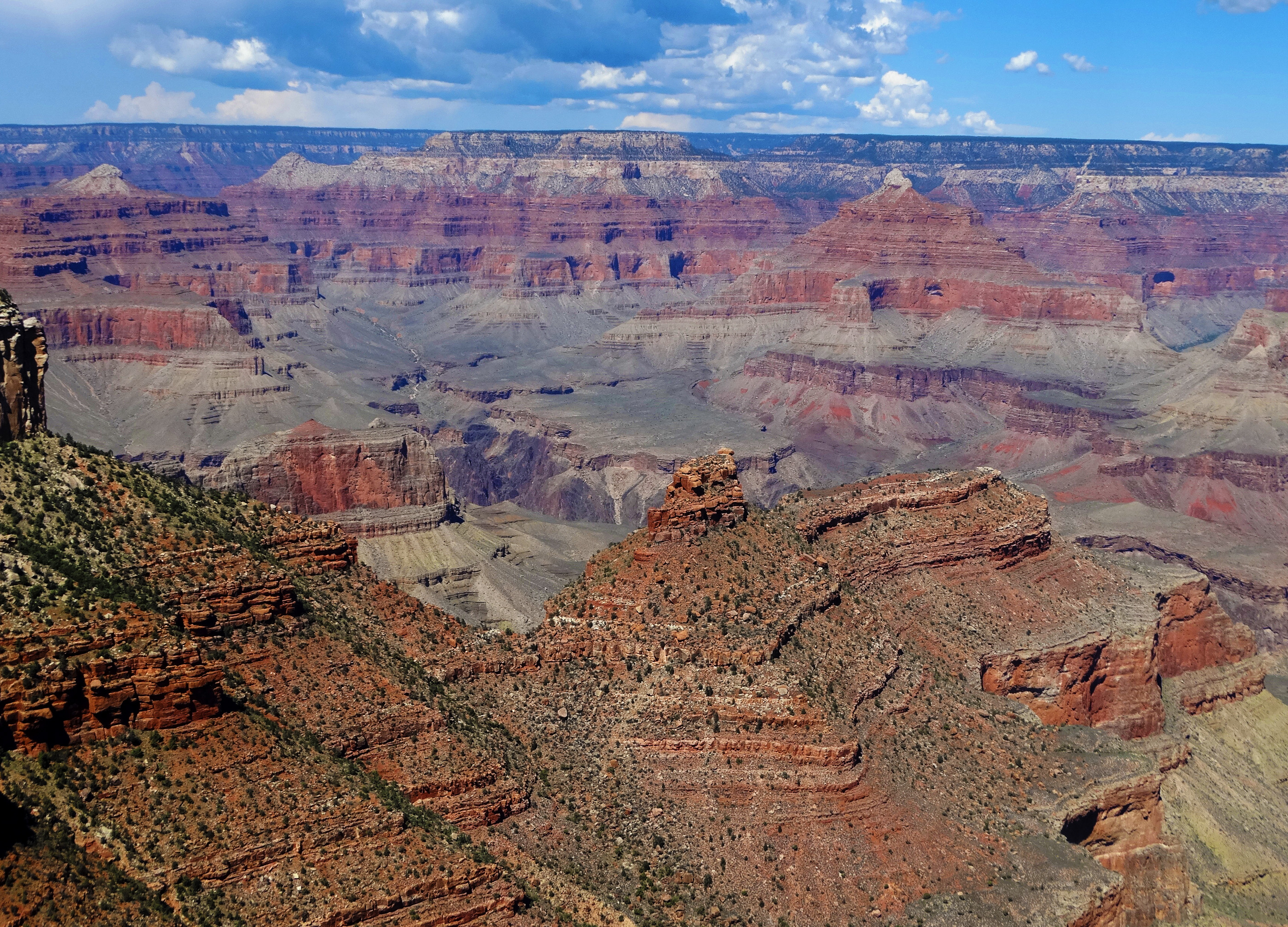 (1 in a multiple picture album) Capturing the Grand Canyon is hard. You can't get a sense of its size with a photo. Maybe this would help visualize it. Let's say you could build a bridge from where I stood to take t his shot, across to the north rim. That bridge would have to be 10 miles long. Now let's imagine you walked out on that bridge and stopped where the Colorado River runs directly below you. You'd be looking down a mile to its surface. The other thing that makes shooting the Grand Canyon challenging is that it changes color all day long and the depth of the color depends on the amount of sun and the angle of the light. I've seen the canyon when it all looks dull with various shades of tan. Then I've seen it on a day like this with all the colors jump out at you.